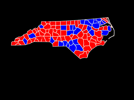 NC Senate Election 1990 County Map